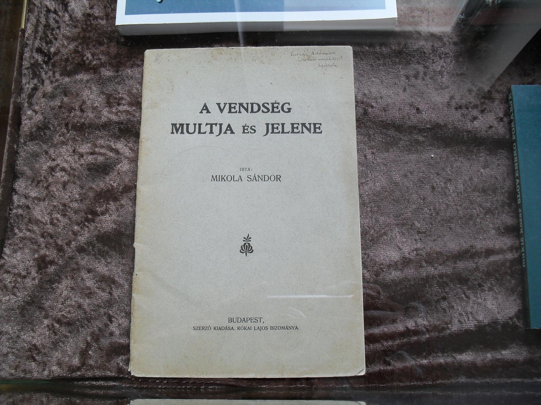 Sándor Mikola: A vendség múltja és jelene (The bygone and present of the Wendic people) hungarian brochure about the Prekmurian language and Prekmurian Slovene people, in effect chauvinist propaganda and falsification of the history of Prekmurje. See also: Vend honfitársaink!